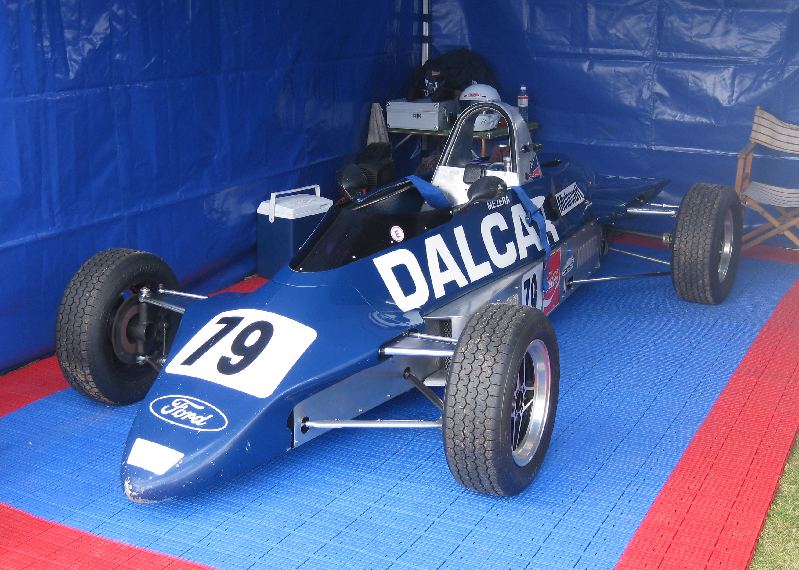 The Reynard FF83 of Neil Richardson at Mallala Motor Sport Park on 23 April 2011. Tomas Mezera won the 1985 Motorcraft Formula Ford Driver to Europe Series driving this car.